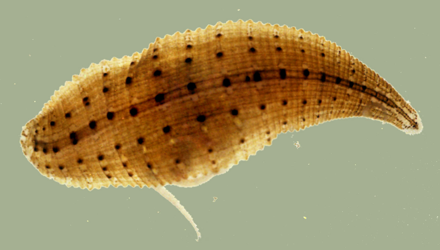 Helobdella europaea, Kutschera 1987